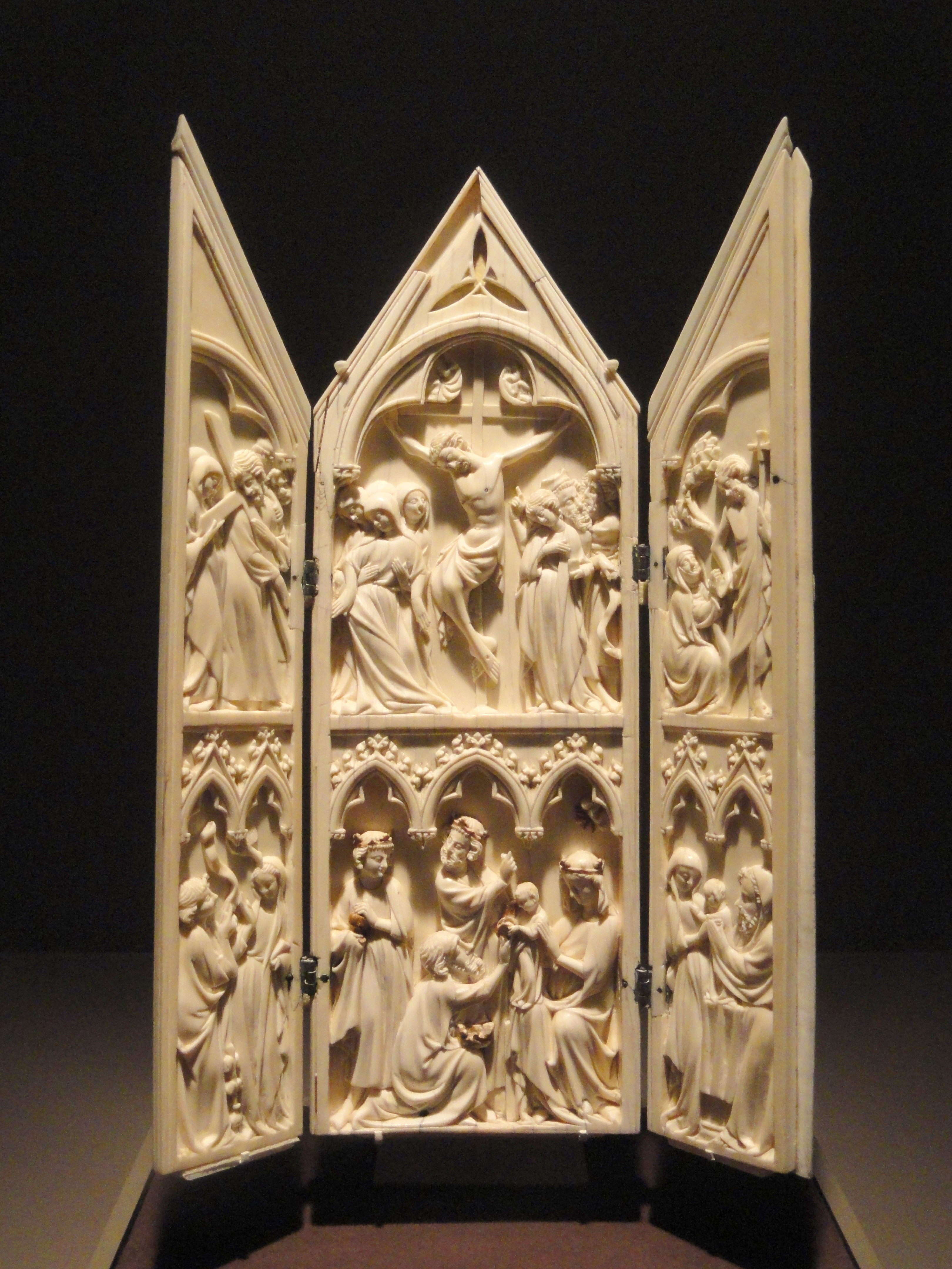 Medieval ivory in the Art Institute of Chicago, Illinois, USA. This artwork is in the public domain because the artist died more than 70 years ago.